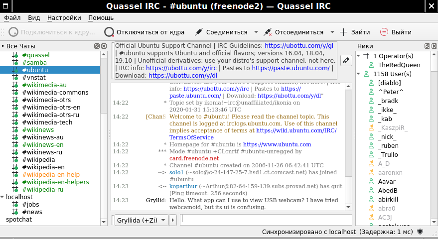 Quassel IRC live chat client in WindowMaker on Debian GNU/Linux. The list of chat channels is on the left and the list of nicks in the current channel is on the right.